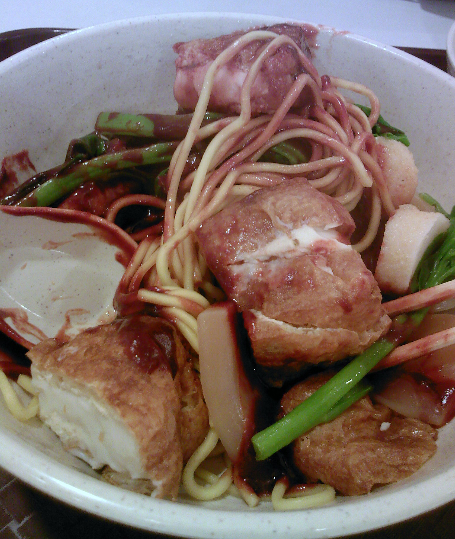 Yong Tau Foo II. 客家語/Hak-kâ-ngî: Yòng-theu-fú.